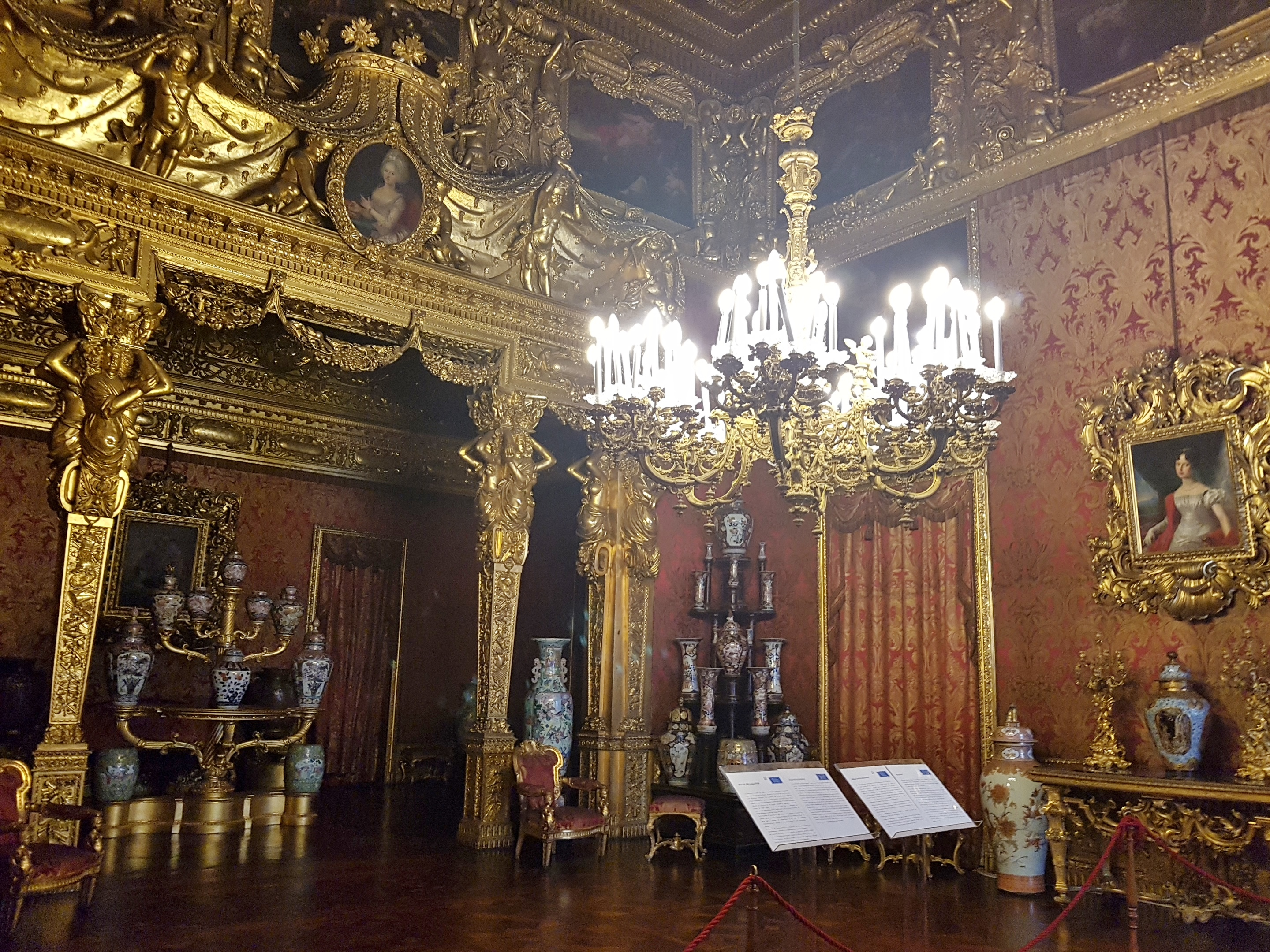 First floor: Alcove Hall, Royal Palace of Turin, Northern Italy